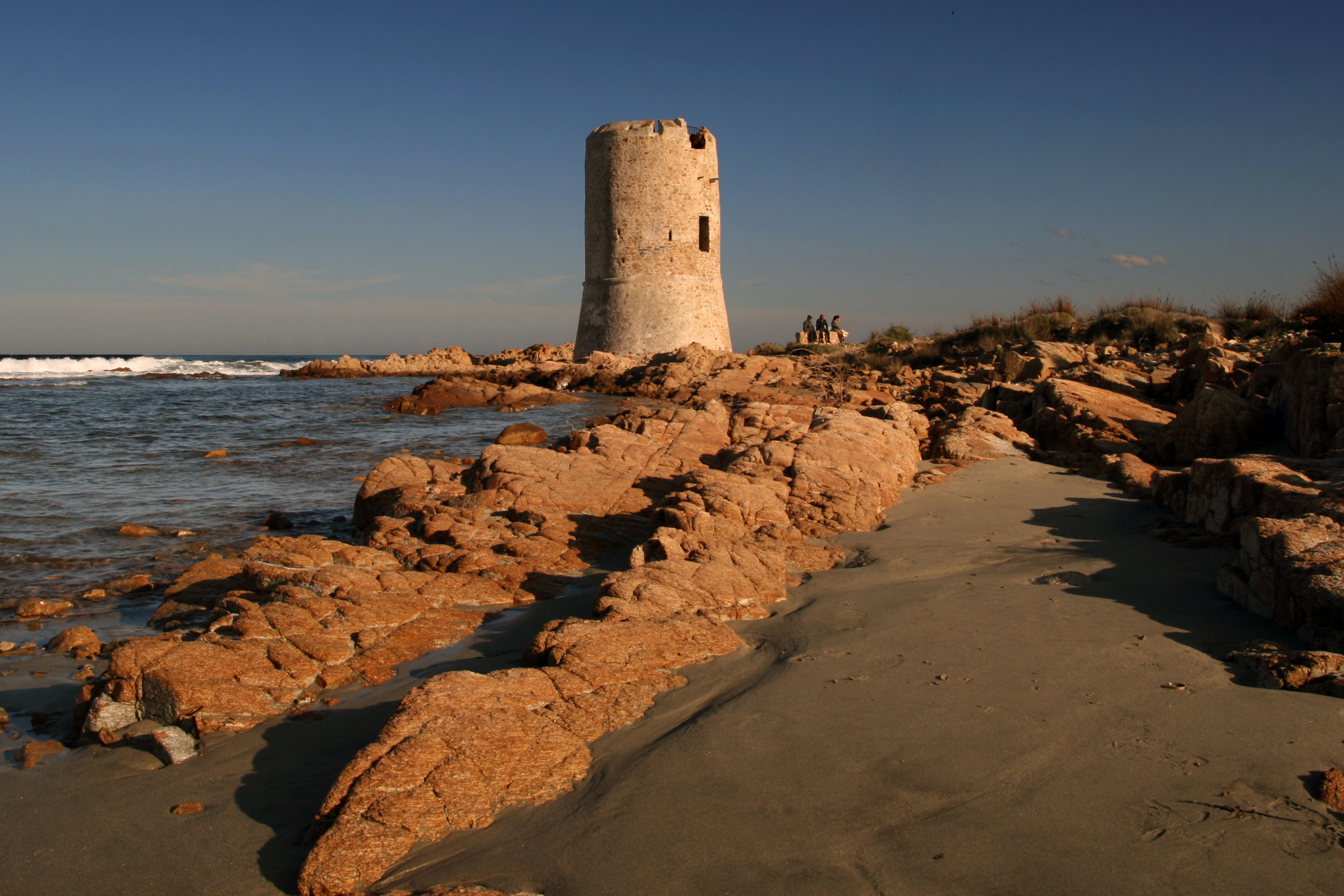 Spanish Tower between La Caletta (Siniscola) and San Giovanni di Posada, Sardinia; this tower, built in the 16th-17th century, served as an alert facilty in visual connection with Posada's castle, due to frequent saracen pyrates' raids